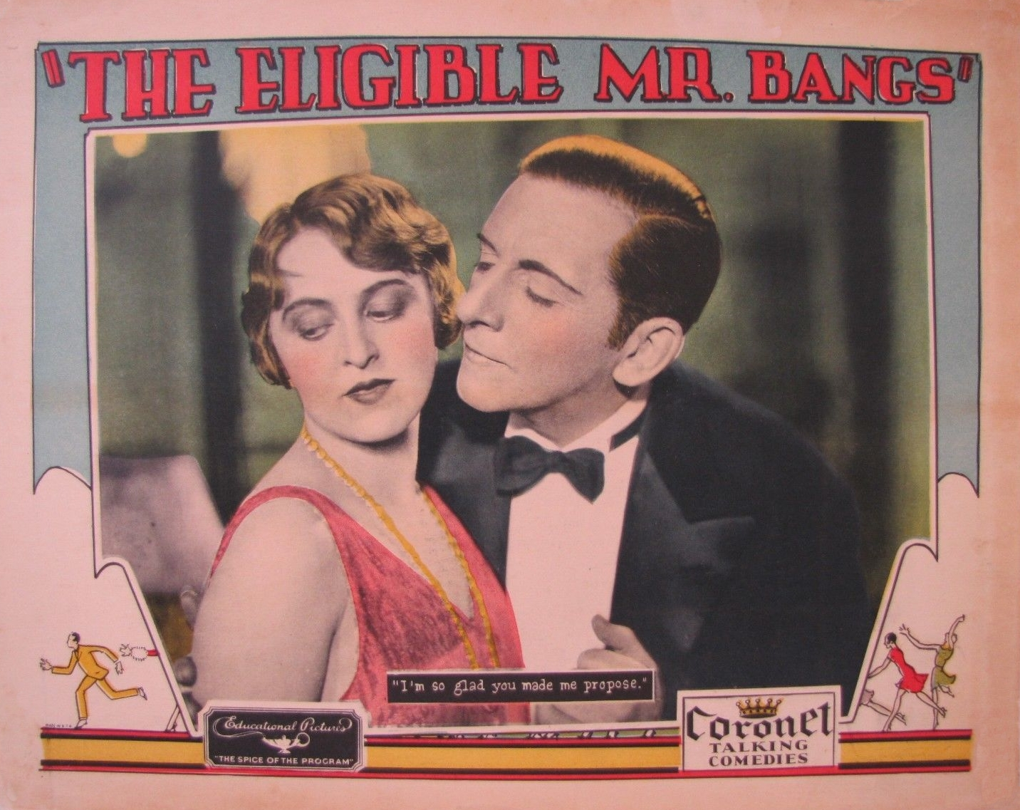 This is a lobby card for the 1929 American short comedy film The Eligible Mr. Bangs.